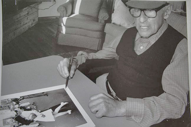 Alfred Eisenstaedt (Eisie) signing a "VJ day" print on the afternoon of August 23, 1995, for his friend, William Waterway Marks. The location is Eisie's vacation cabin located at Menemsha Inn on the island of Martha's Vineyard. Eisie died in the cabin about eight-hours later, shortly after midnight, on August 24, 1995, in the company of his sister-in-law, Lucille Kaye, and William Waterway Marks.